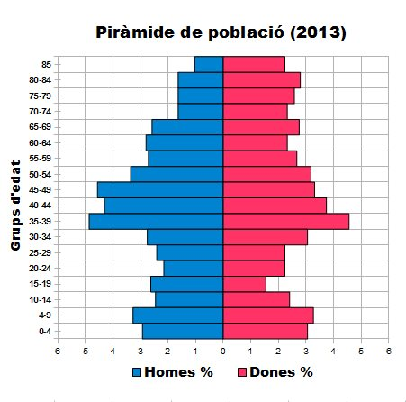 Population pyramid of Llubí in 2013.